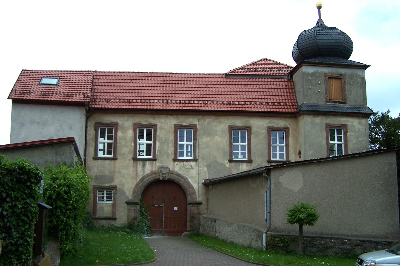 The western front of the Propstei Zella.